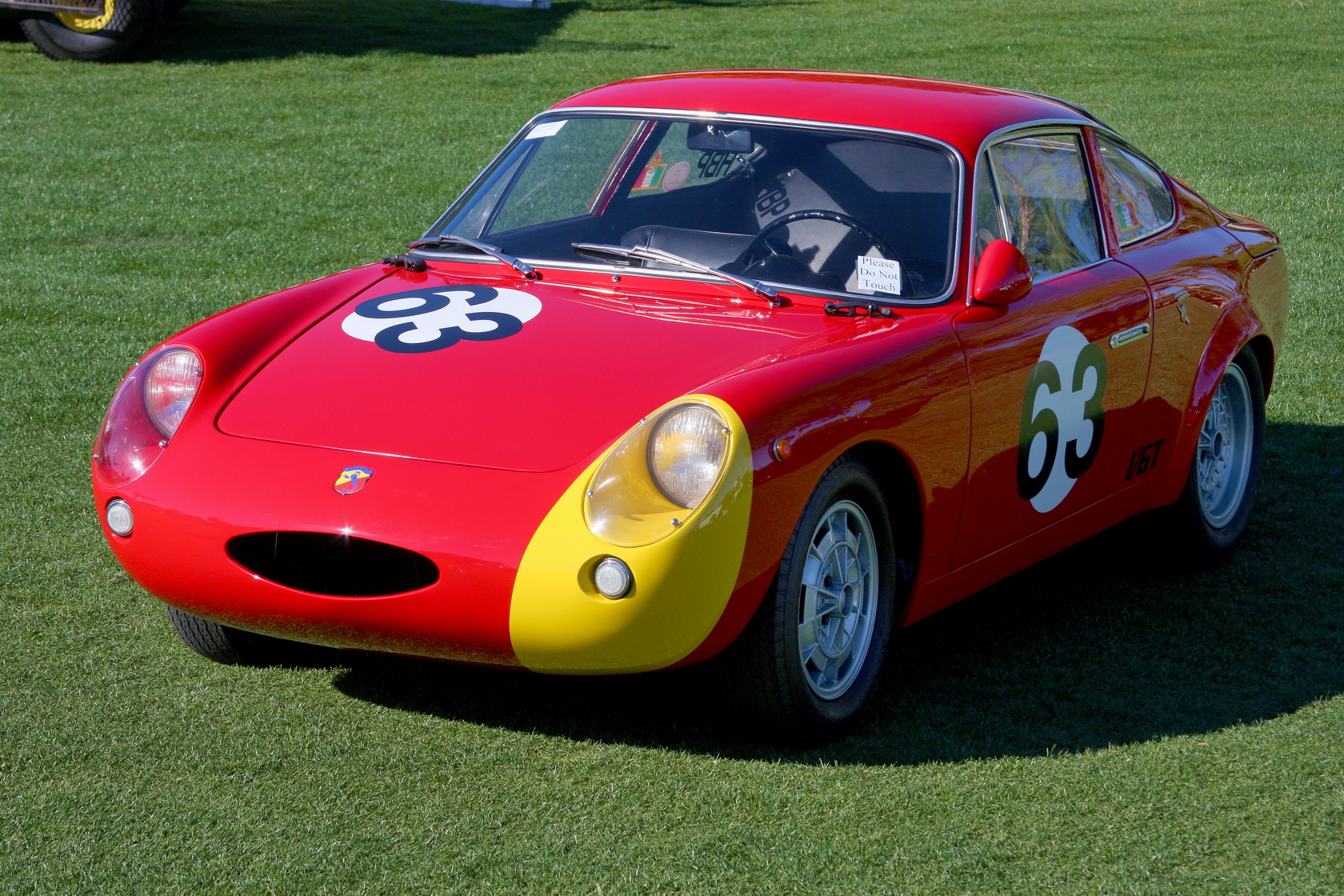 2013 Desert Classic Concours d'Elegance in Palm Springs, California.